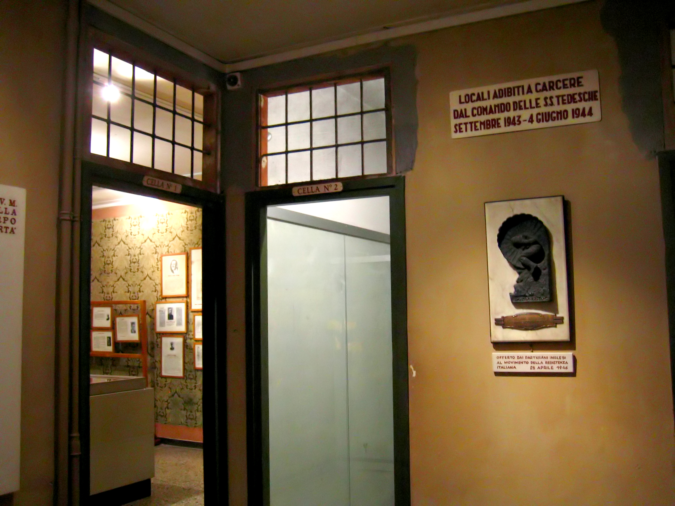 The prison occupies two former apartments in an ordinary apartment building. The SS bricked up the windows, leaving tiny grates, and put bars in the overdoors. All the wall surfaces, and even the electrical system, in this place are original. Through the door to the left we can see that one cell was wallpapered, a relic from its previous use as a hotel.